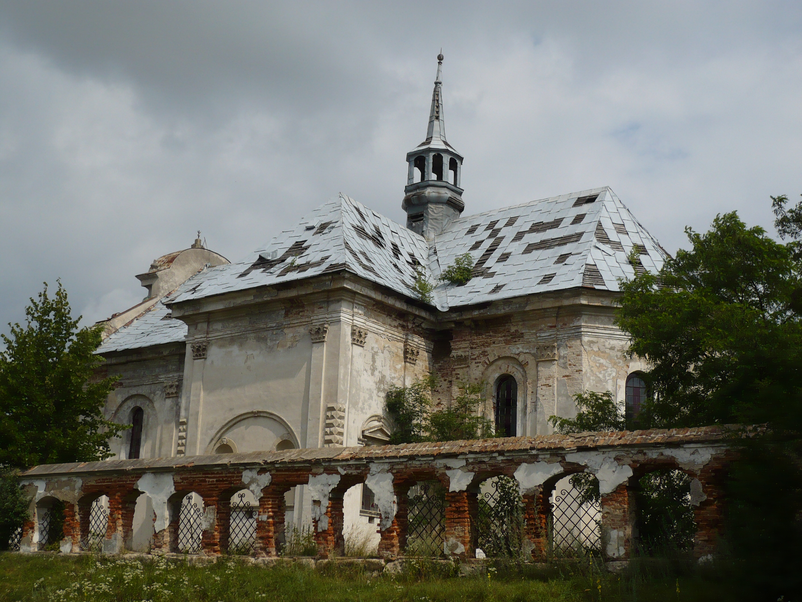 Church of the Assumption of Mary in Bilyi Kamin